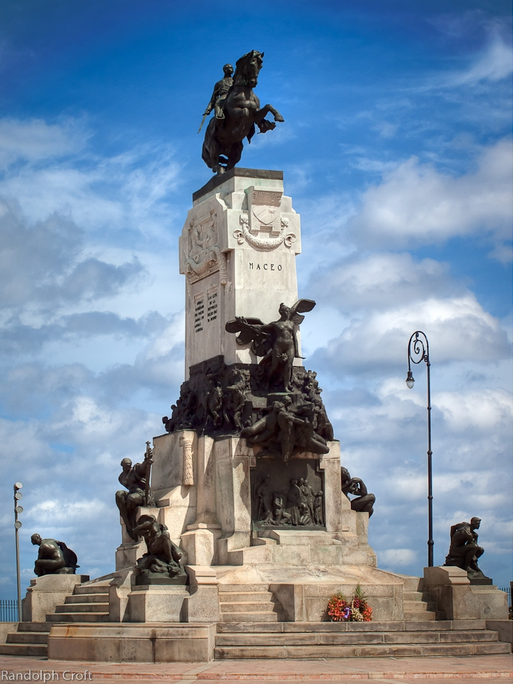 General Antonio Maceo Monument, Centro Habana